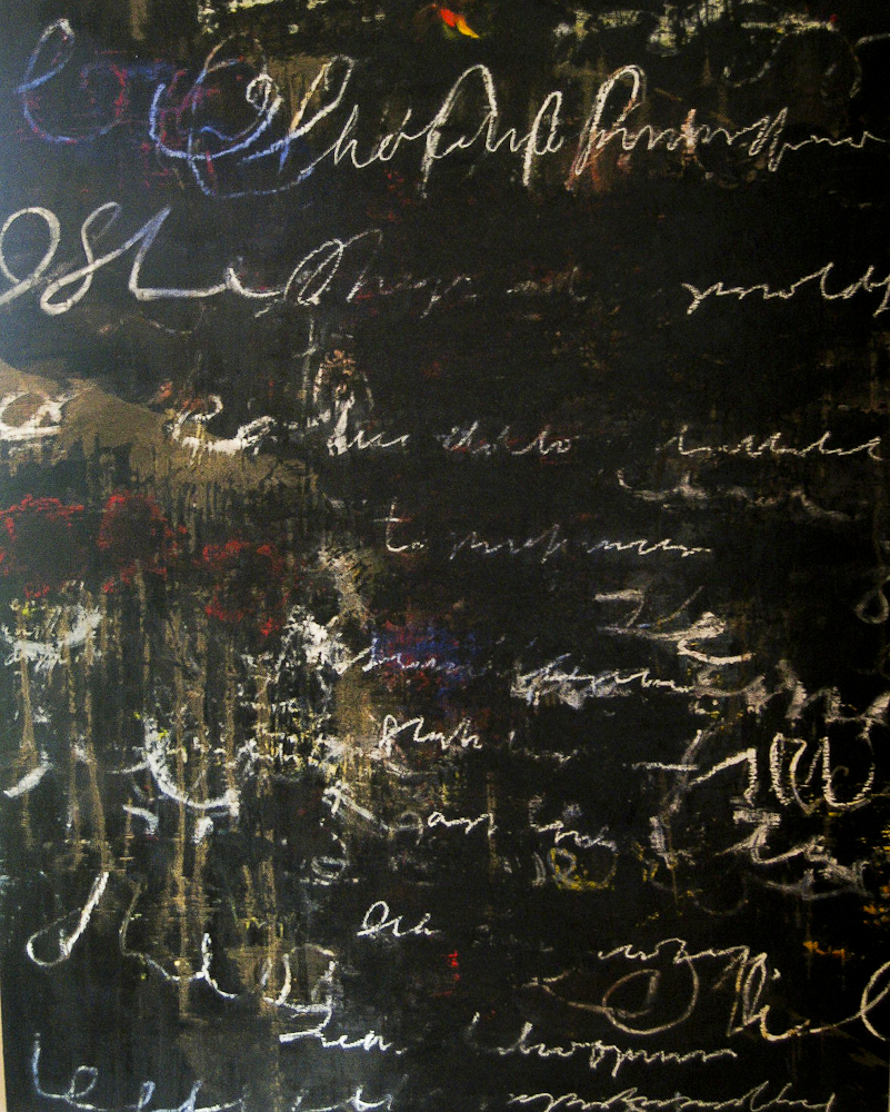 Painting by Adam Shaw